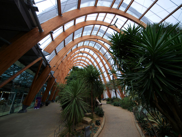 Sheffield Winter Gardens Glulam timber structure.